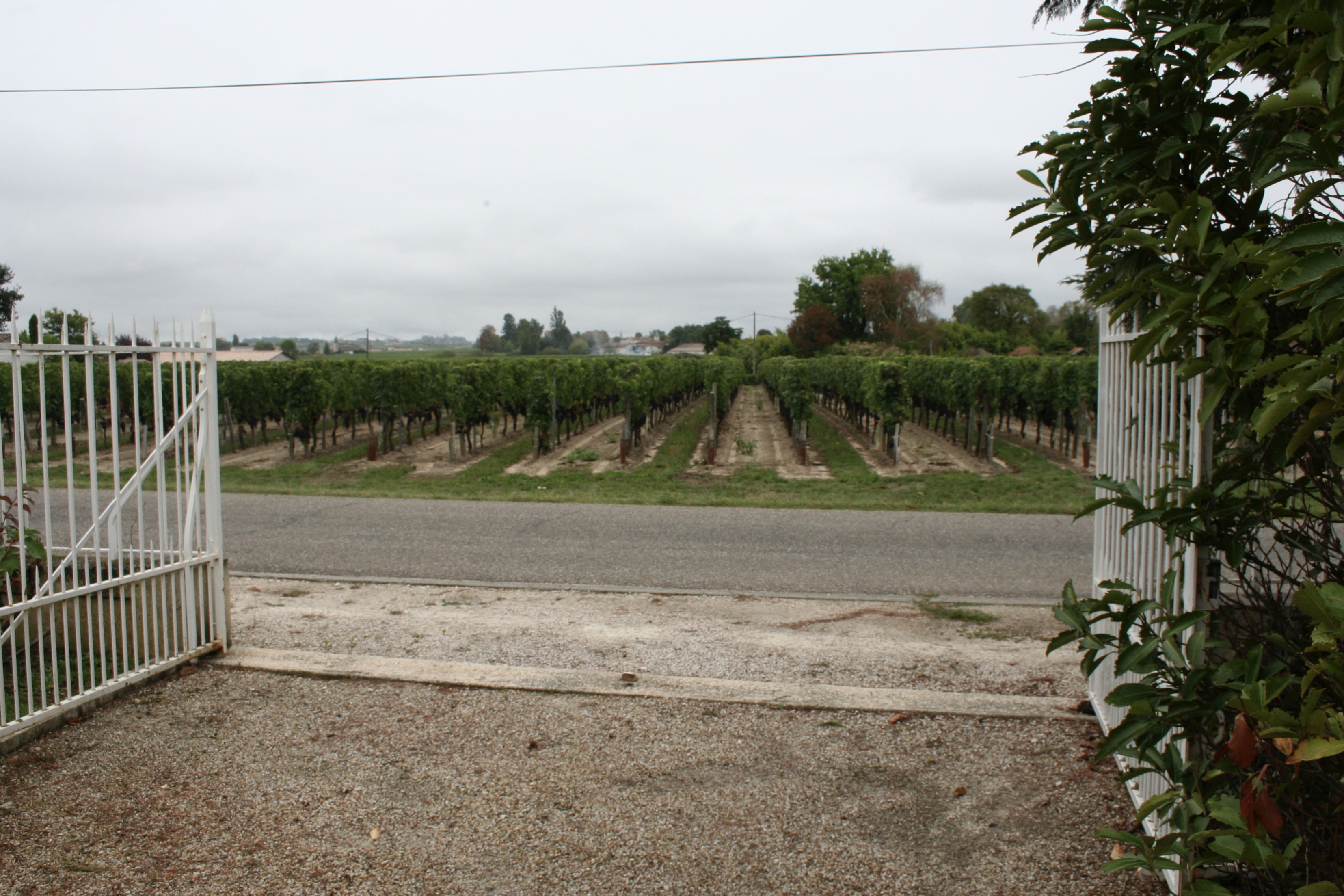 Vineyard belonging to French wine consultant Michel Rolland in Bordeaux